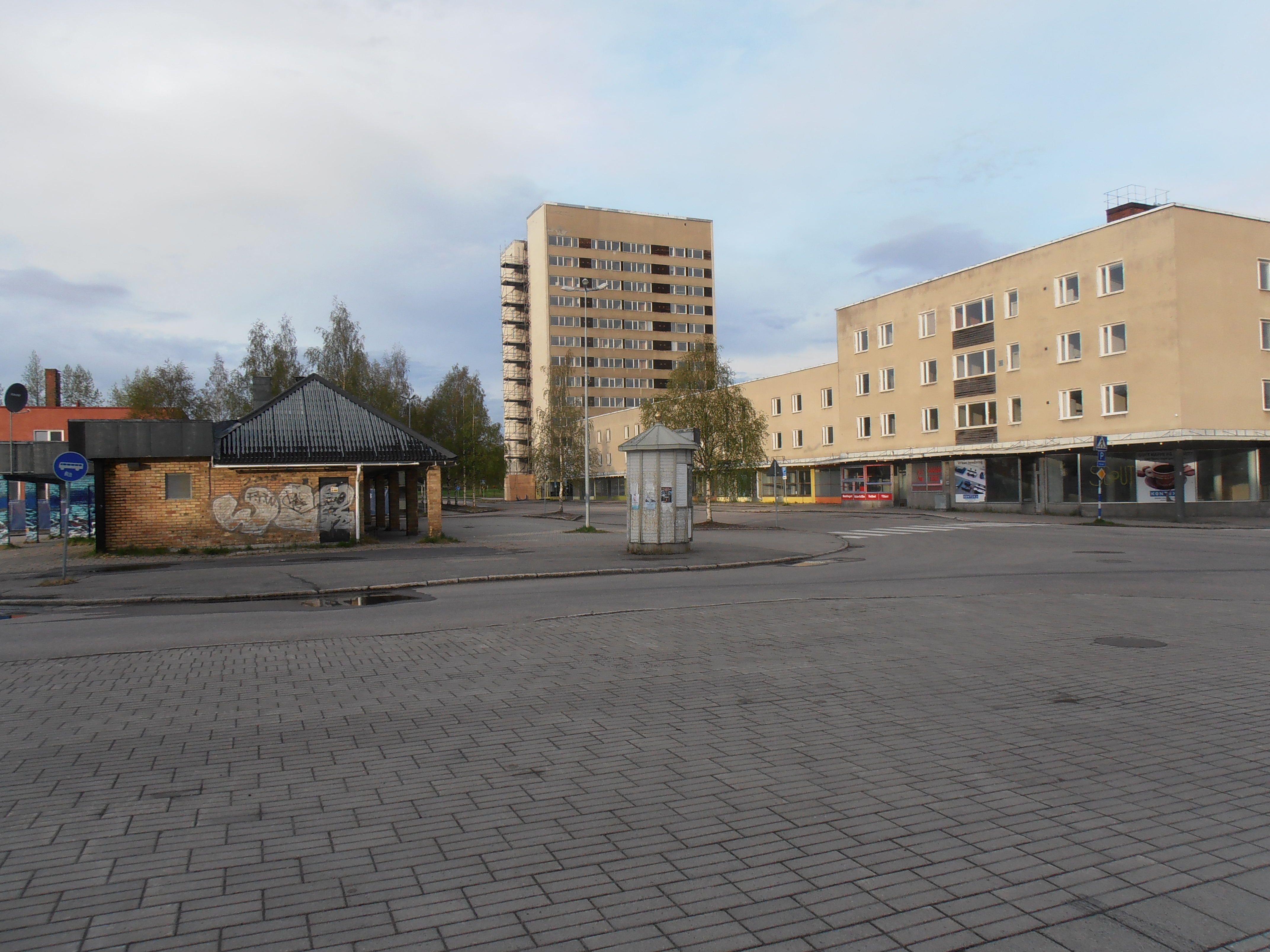 The square in Malmberget. In the middle is the Fokus house and commercial properties, and to the left is the buss station.